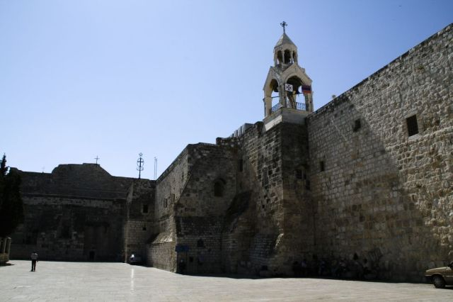 For more pictures and videos of Israel, please visit here. The Church of the Nativity, seen from Manger Square